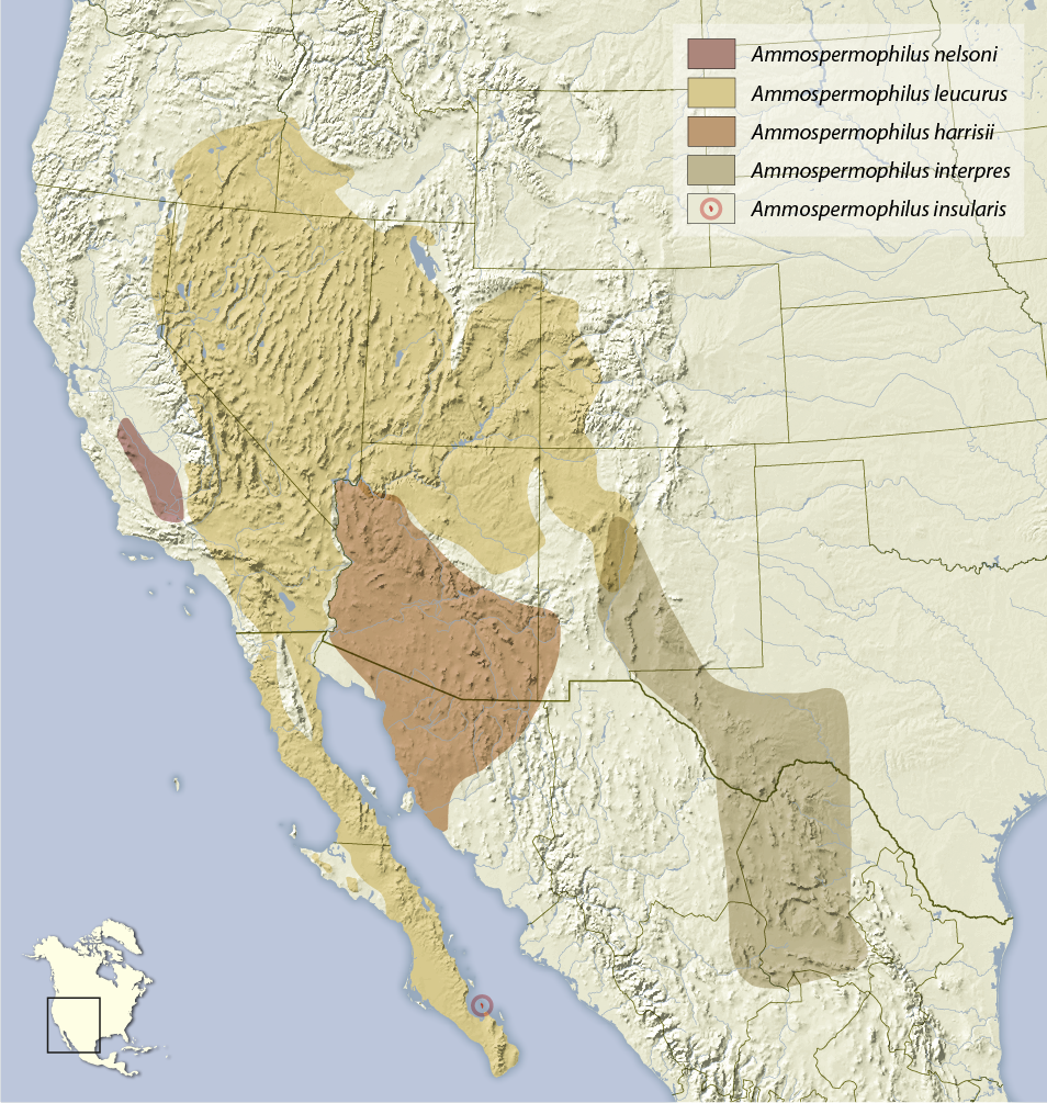 Distribution map of the genus Antelope squirrel